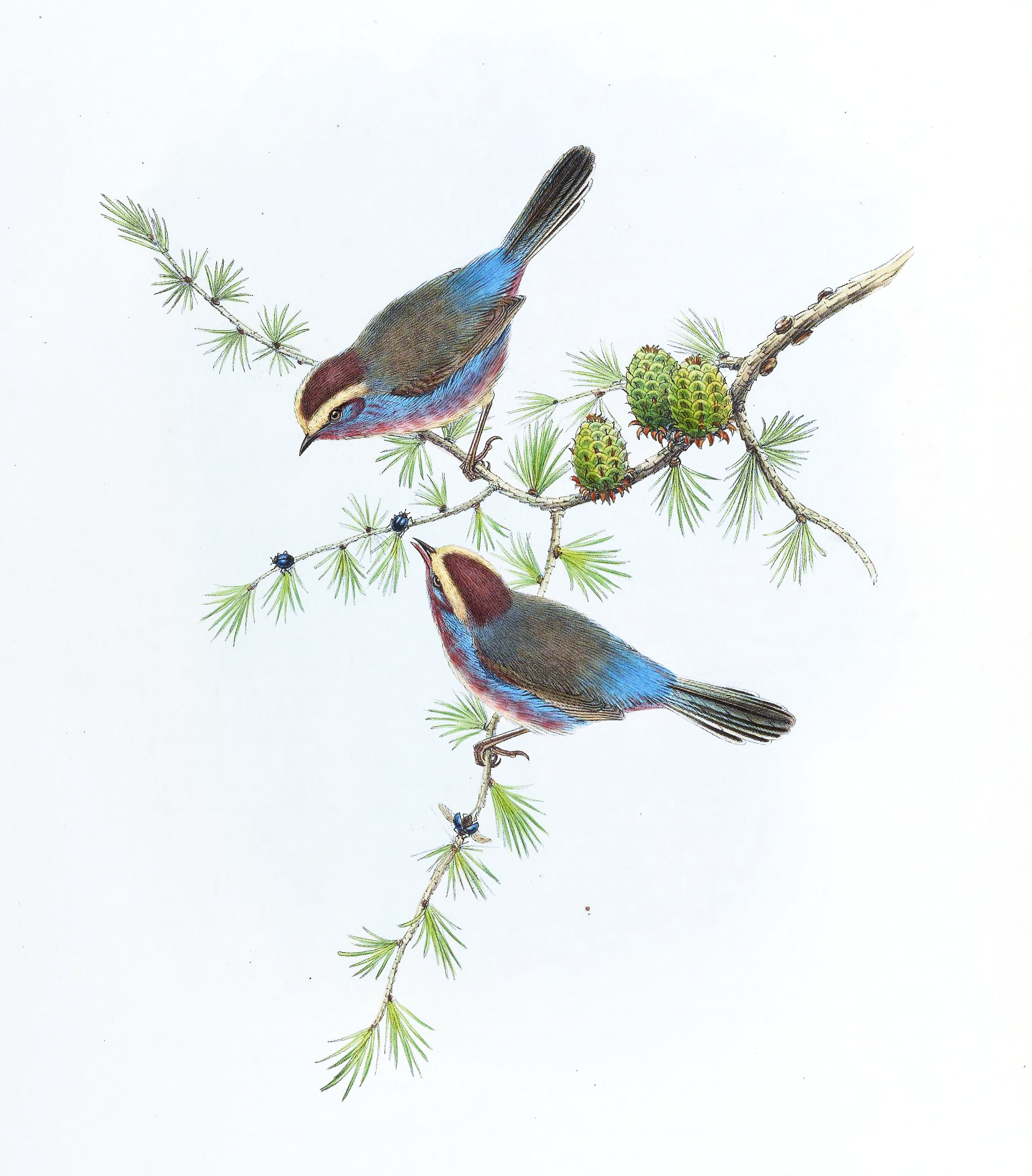 Leptopoecile sophiae